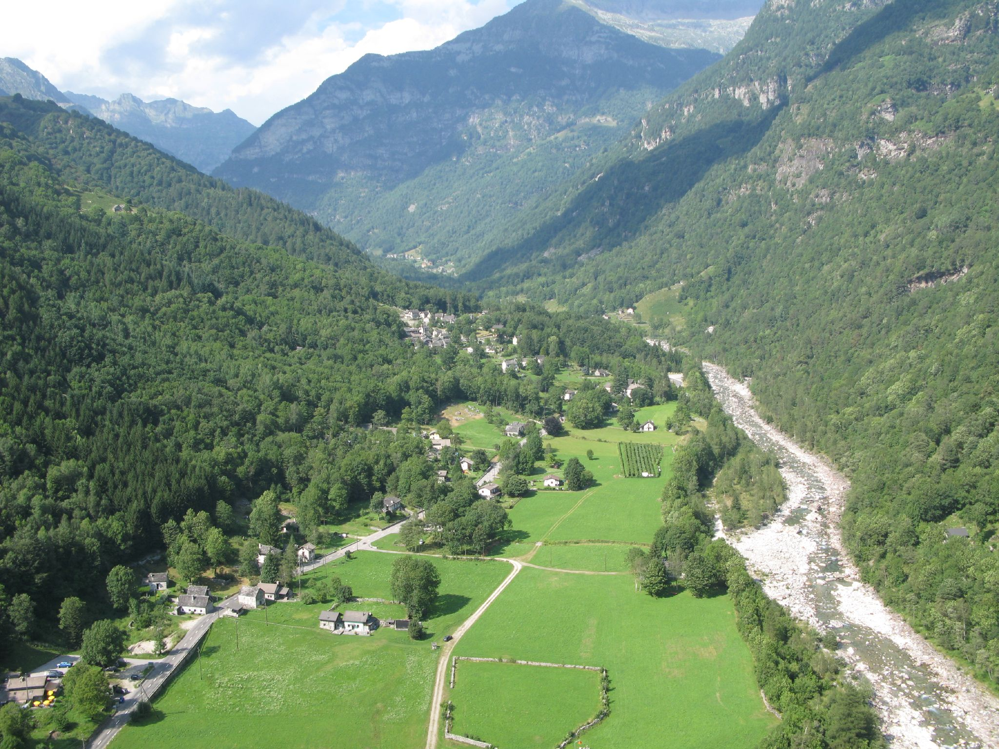 Coming in for a landing at Gerra Verzasca, Ticino, Switzerland